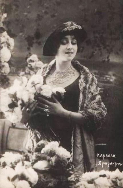 Vera Kalalli in "Krizantemy" (1914)